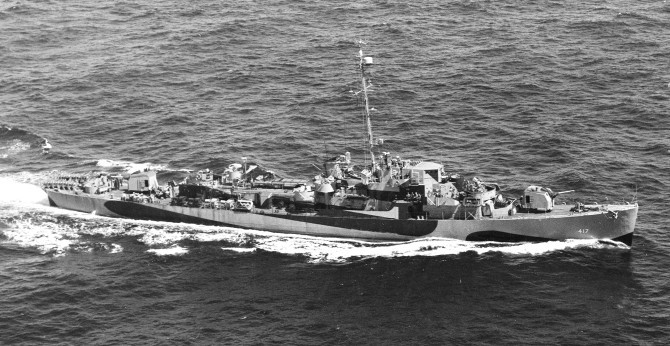 A starboard aerial photo of USS Oliver Mitchell (DE-417) 50 miles east of Nantucket Sound wearing 32/22D. This photo was taken by squadron ZP-11 on August 20, 1944.